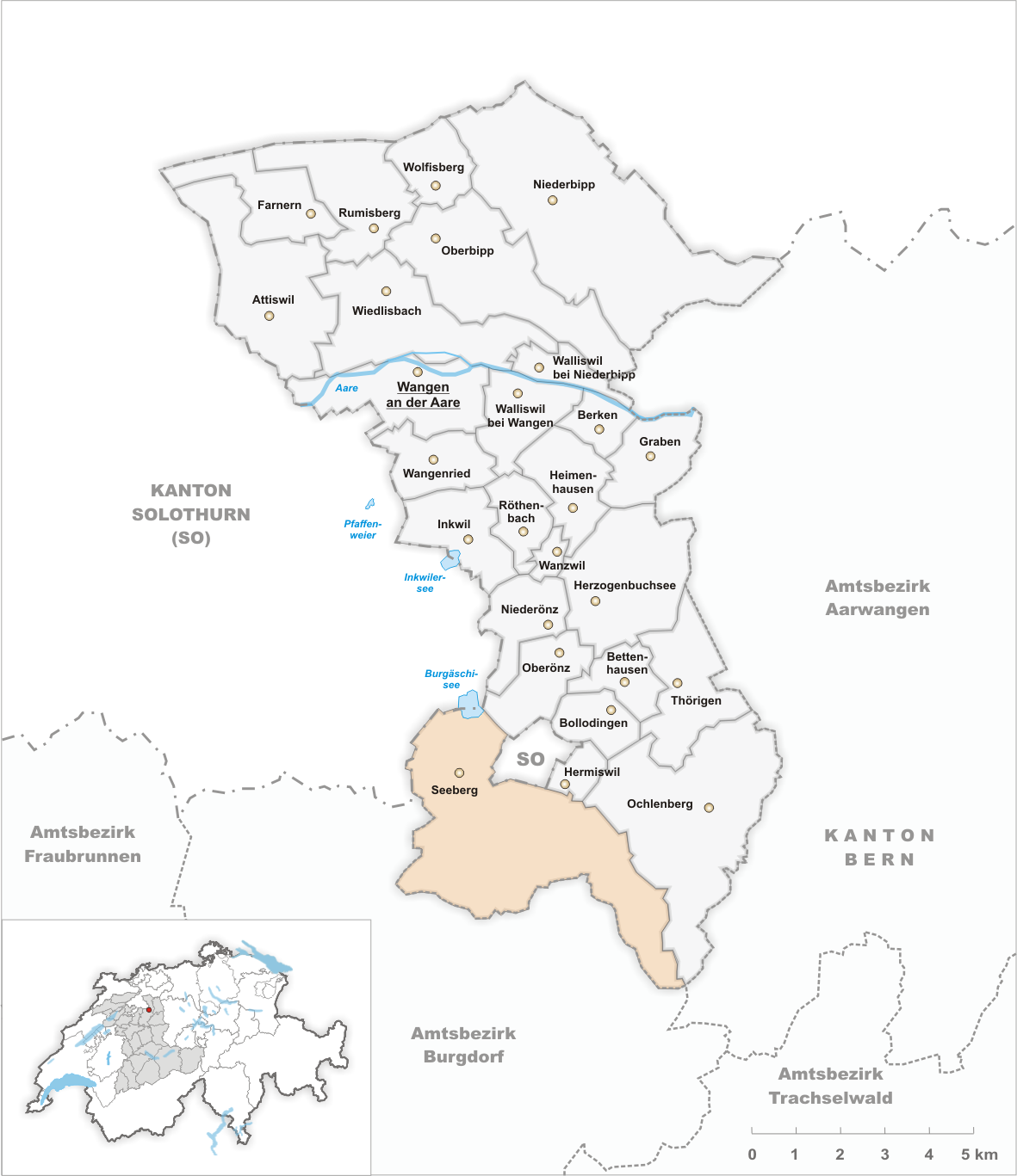 Municipality Seeberg